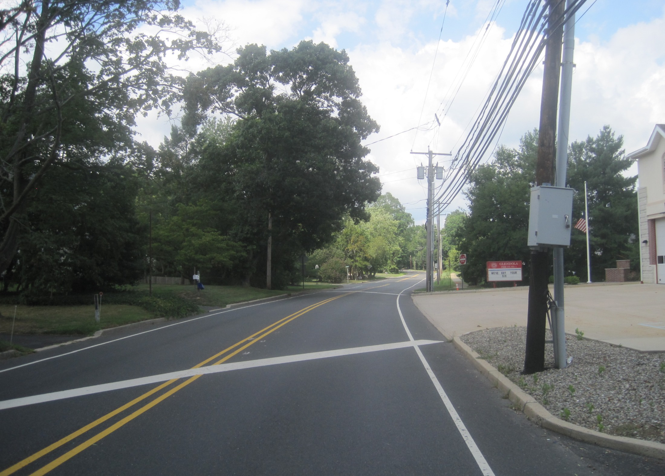 Photo showing Glendola, New Jersey, an unincorporated community within Wall Township. Photo taken along westbound Belmar Boulevard (County Route 18) past Allenwood Road.